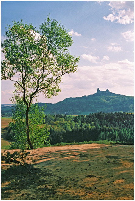 Trosky Castle as seen from Borek Rocks.